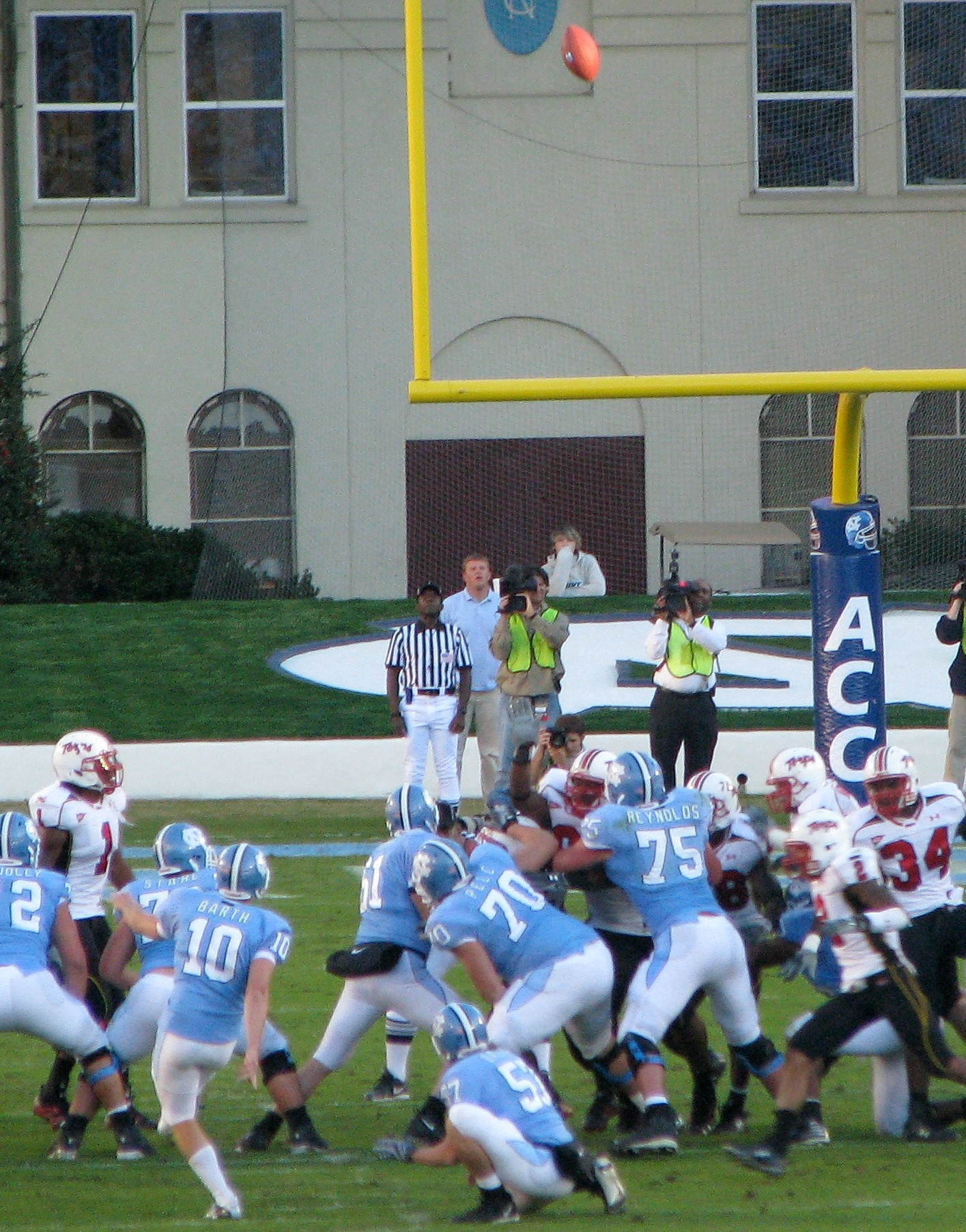 The hero of the 2004 upset over no. 3 Miami breaks an early tie with Maryland